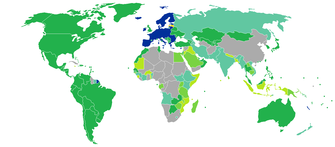 Visa requirements for Latvian citizens Latvia Freedom of movement Visa not required Visa on arrival eVisa Visa available both on arrival or online Visa required prior to arrival